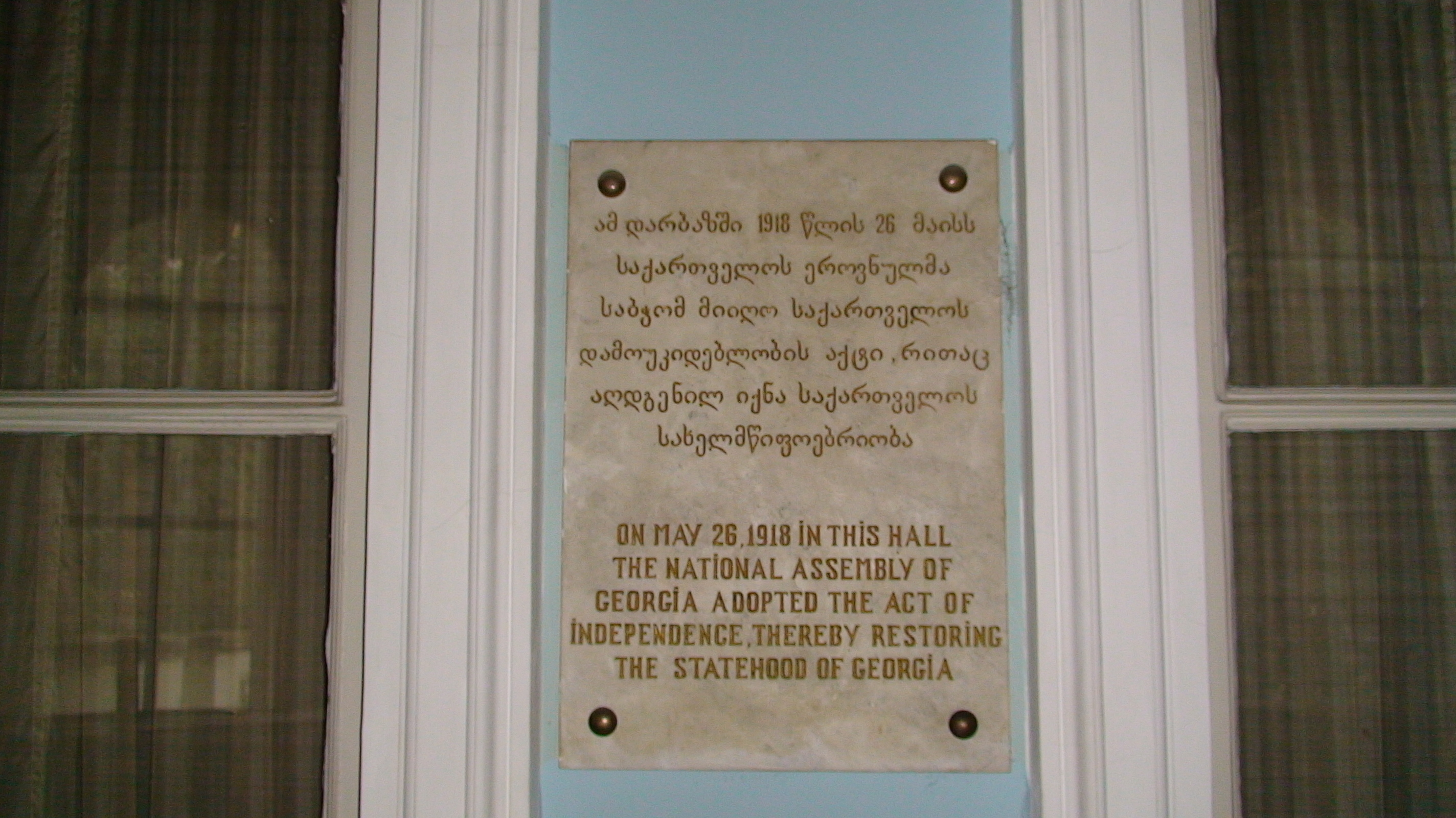 About Republic of Georgia